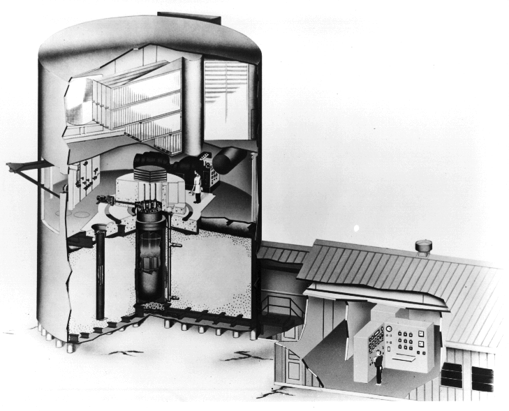 SL-1 Reactor. Cutaway of reactor and control building.